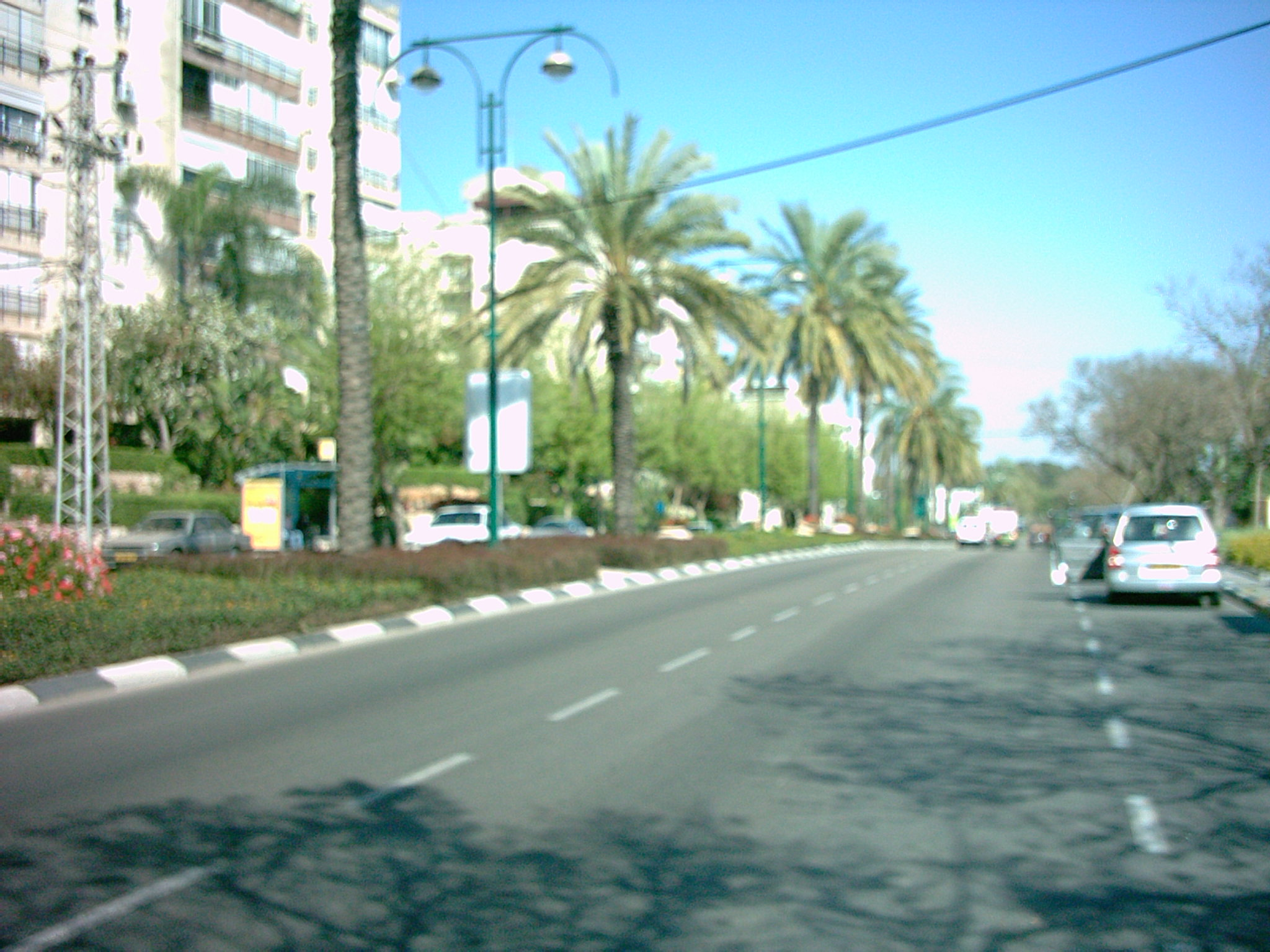 Street in Ramat HaSharon (Israel)